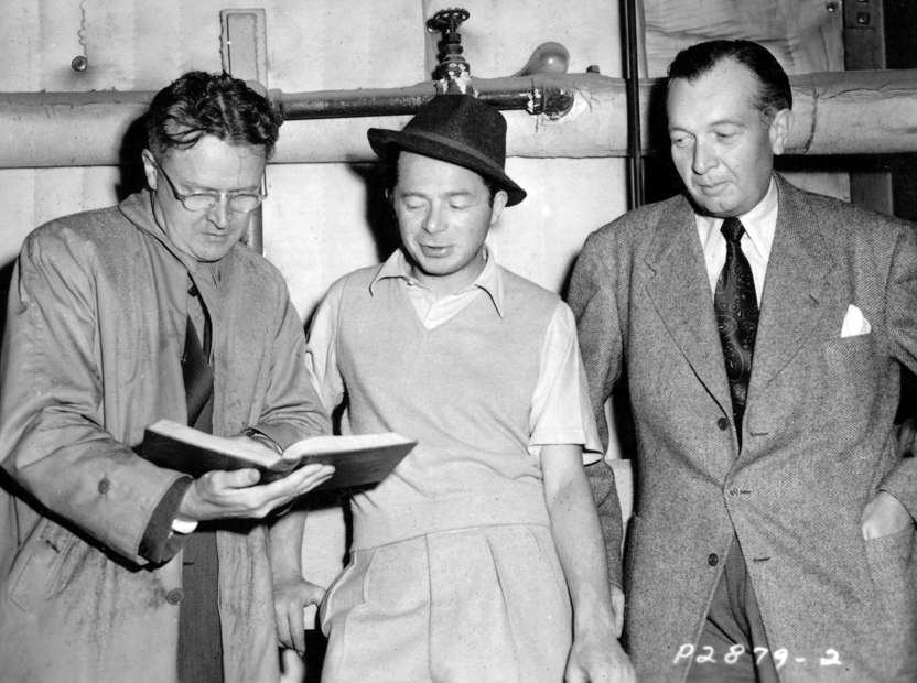 L. to R. : Charles Brackett (screenwriter), Billy Wilder (director) & Doane Harrison (editor) - publicity still (on the set of The Major and the Minor (1942)?)